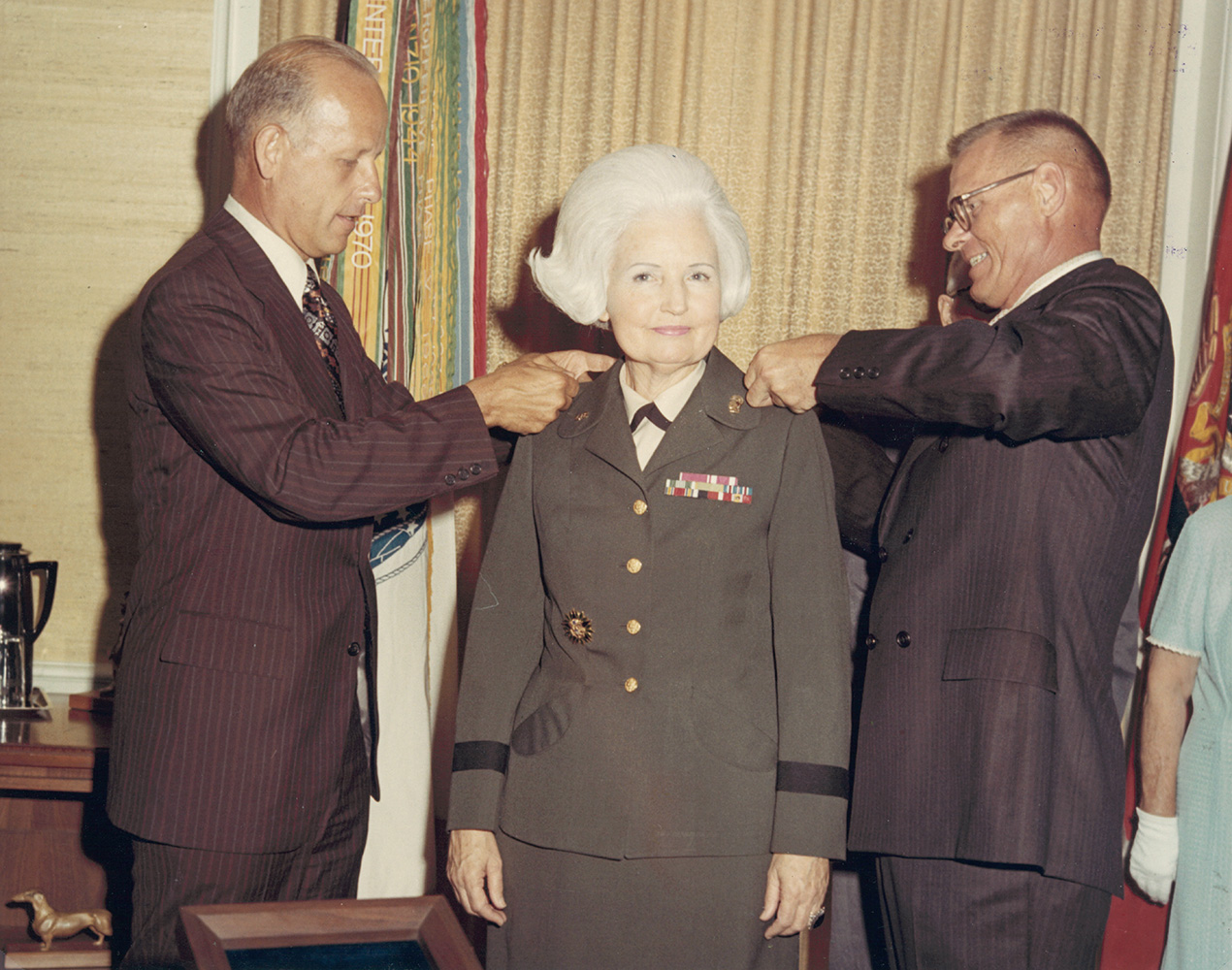 From the back of the photo: Honorable Robert F. Froehlke, Secretary of the Army, pinning stars on BG Mildred Bailey, assisted by COL Keith S. Lane, Ret., at promotion ceremony held in the Pentagon, Washington, D.C. GEN BG Bailey was sworn in as Director, Women's Army Corps. Photo by: Frederick Hinshaw U.S. Army Photographic Agency Washington, D.C.